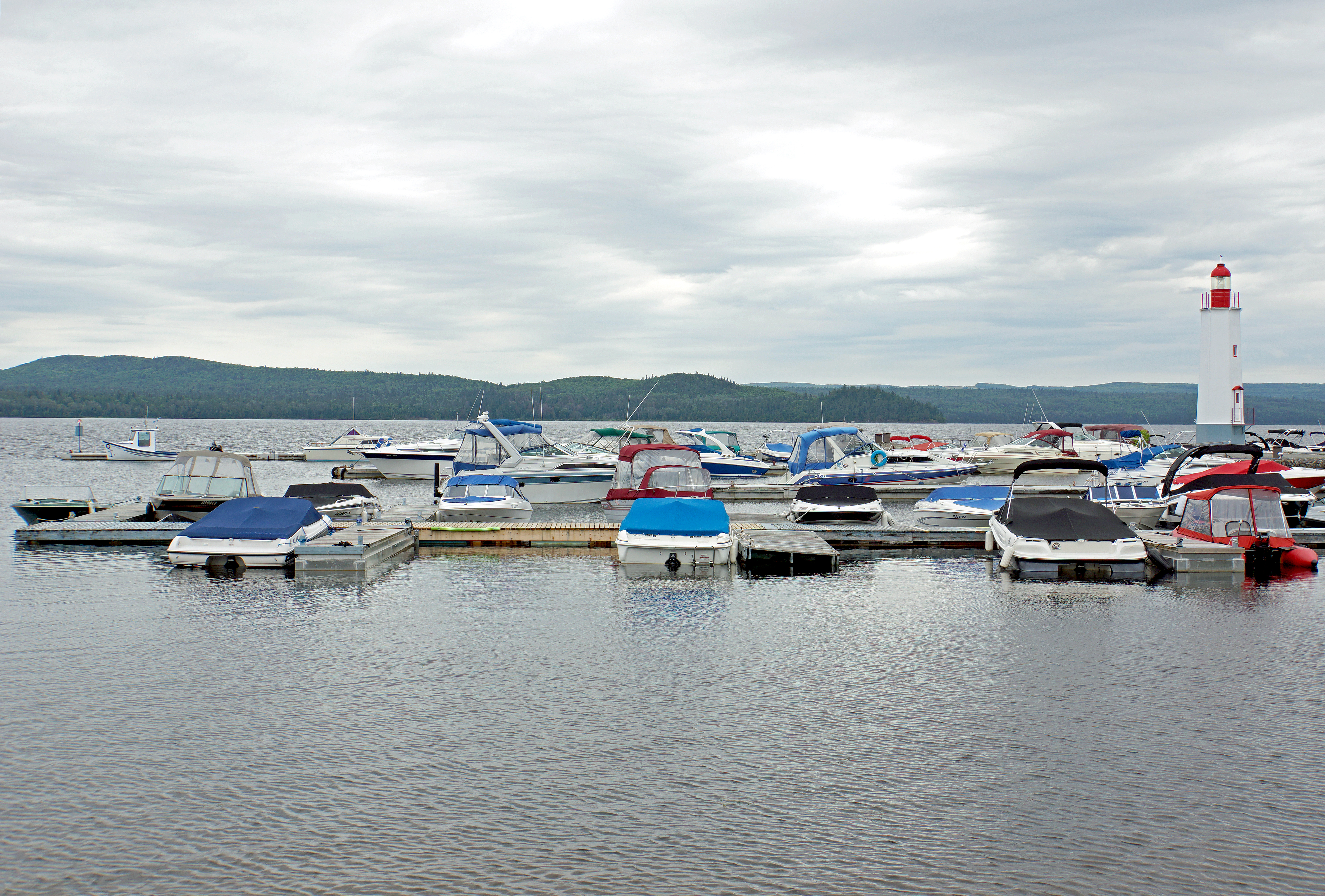 PLEASE, no multi invitations, glitters or self promotion in your comments, THEY WILL BE DELETED. My photos are FREE for anyone to use, just give me credit and it would be nice if you let me know, thanks - NONE OF MY PICTURES ARE HDR. Built in 2000, the Cabano Lighthouse is on Lake Témiscouata. It is active and is privately maintained and owned. Approx. 13m (43ft) hexagonal tower with round lantern and gallery. Lighthouse painted white; lantern and gallery painted red. Cabano is a town on the east side of Lac Témiscouata roughly halfway between Rivière-du-Loup and the New Brunswick border. Located on the south pier, near the marina in Cabano.